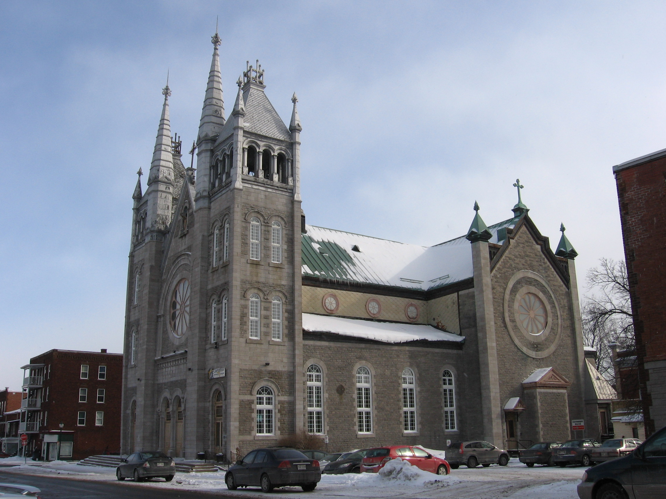 Shawinigan church